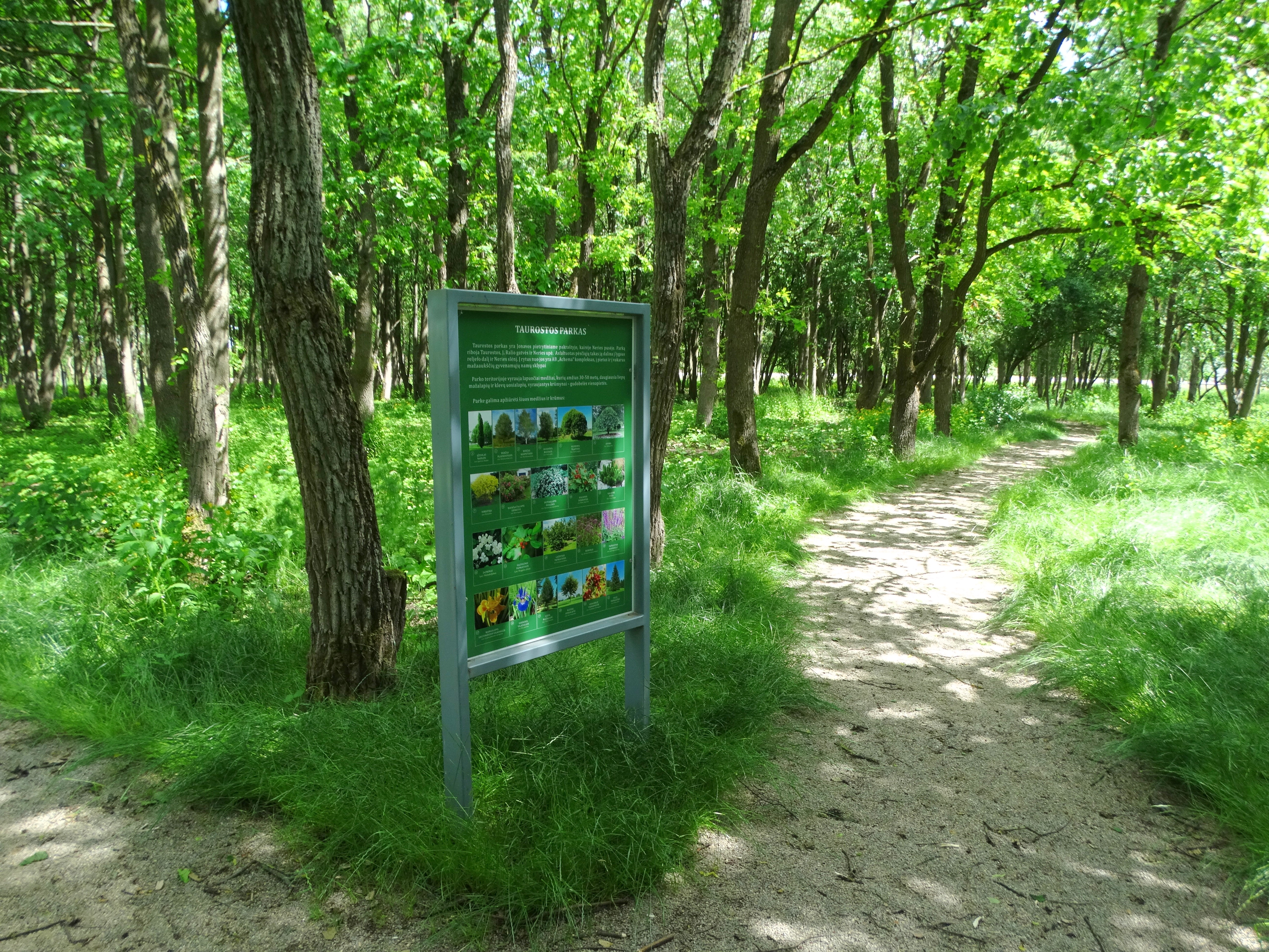 Taurosta Park, Jonava, Lithuania